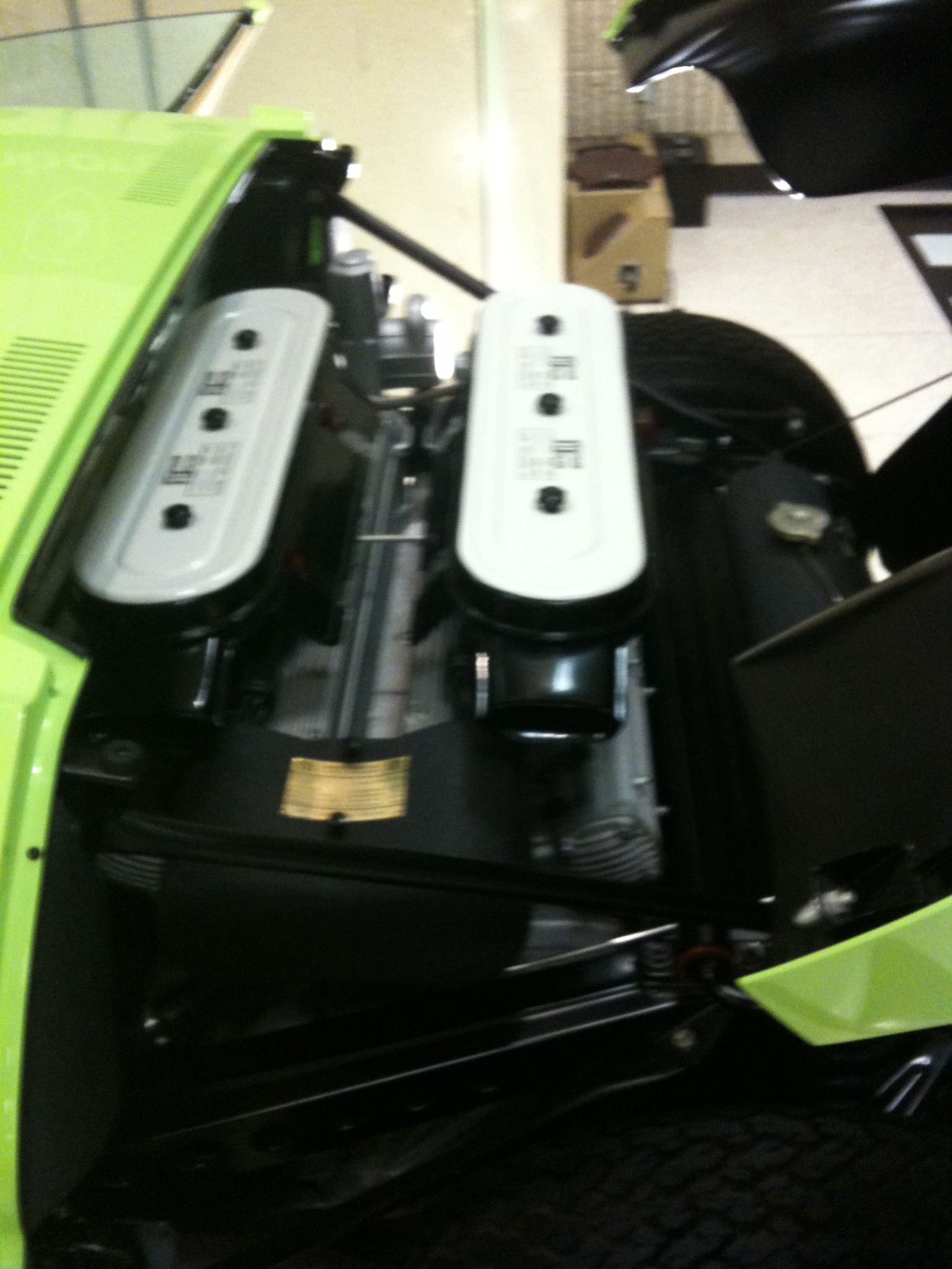 Lamborghini Miura engine